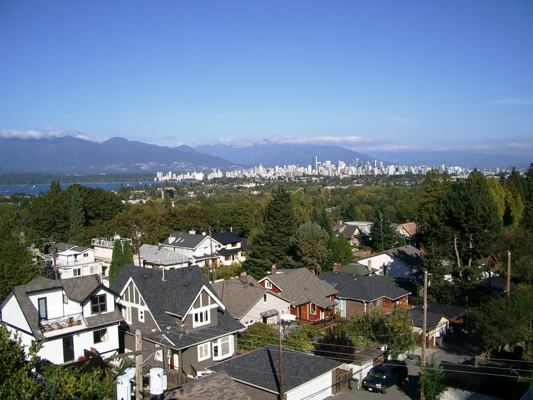 View of Dunbar fr Dunbar & 18th Ave (Vancouver BC)